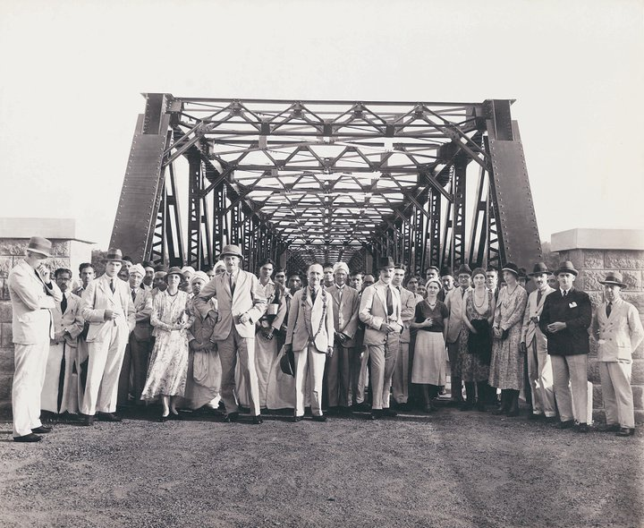 Iritty Steel Bridge is one of the major bridges constructed by the British in British-India.